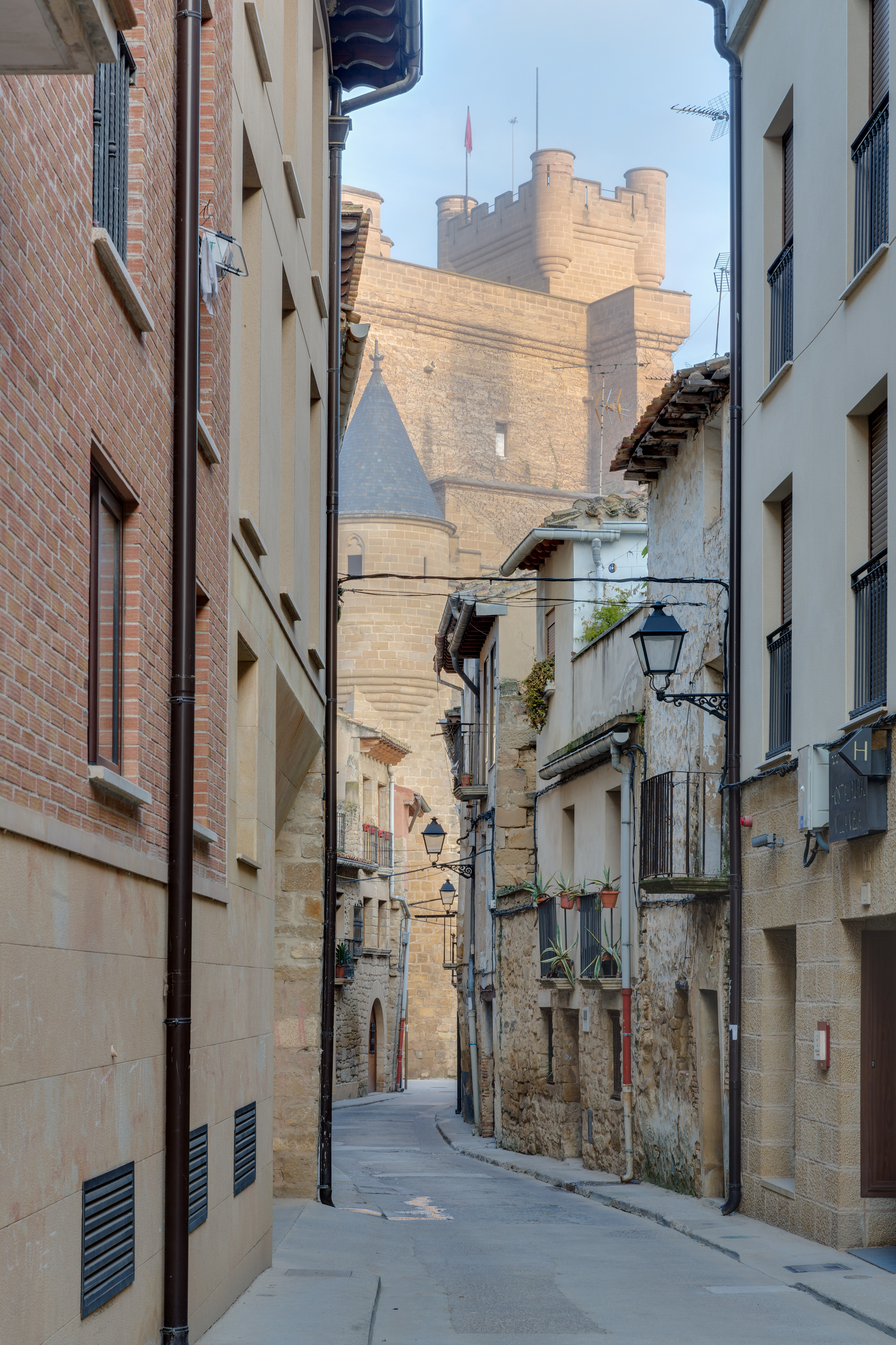 View of the narrow Rúa Villavieja with the Palace of the Kings of Navarre in the background, Olite, Navarre, Spain. Olite is a village with a population of less than 4000, whose castle, built during the 13th and 14th centuries, was one of the seats of the Court of the Kingdom of Navarre since the reign of Charles III "the Noble".